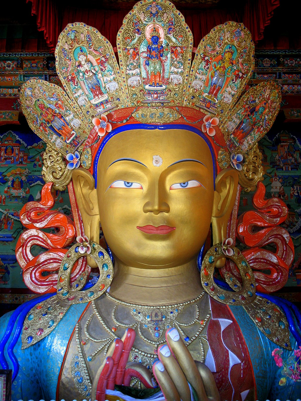 Thikse monastery. This statue of the Maitreya Buddha is about 30 ft tall!